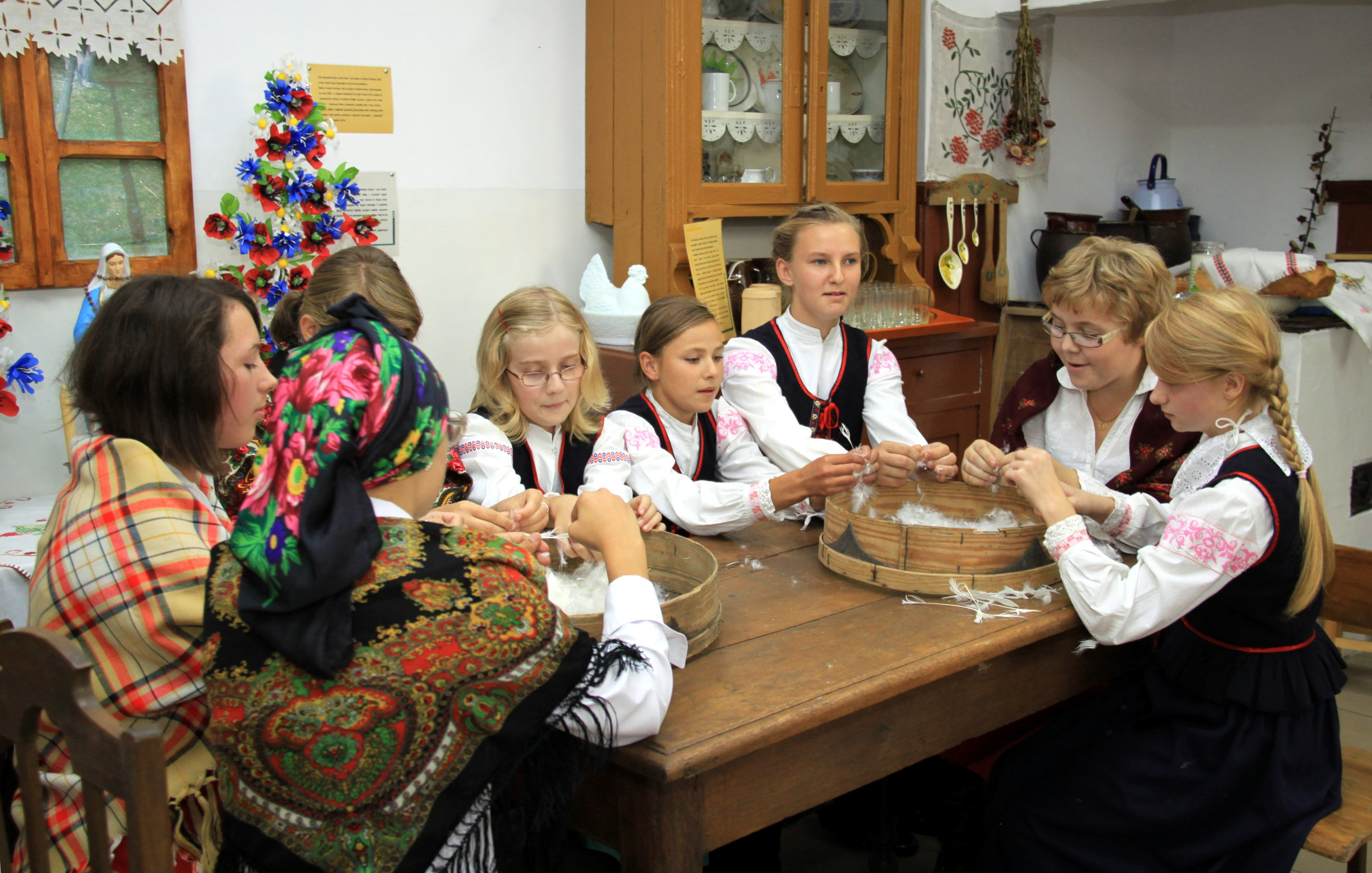 tearing feathers - demonstration in polish school in Kameduły